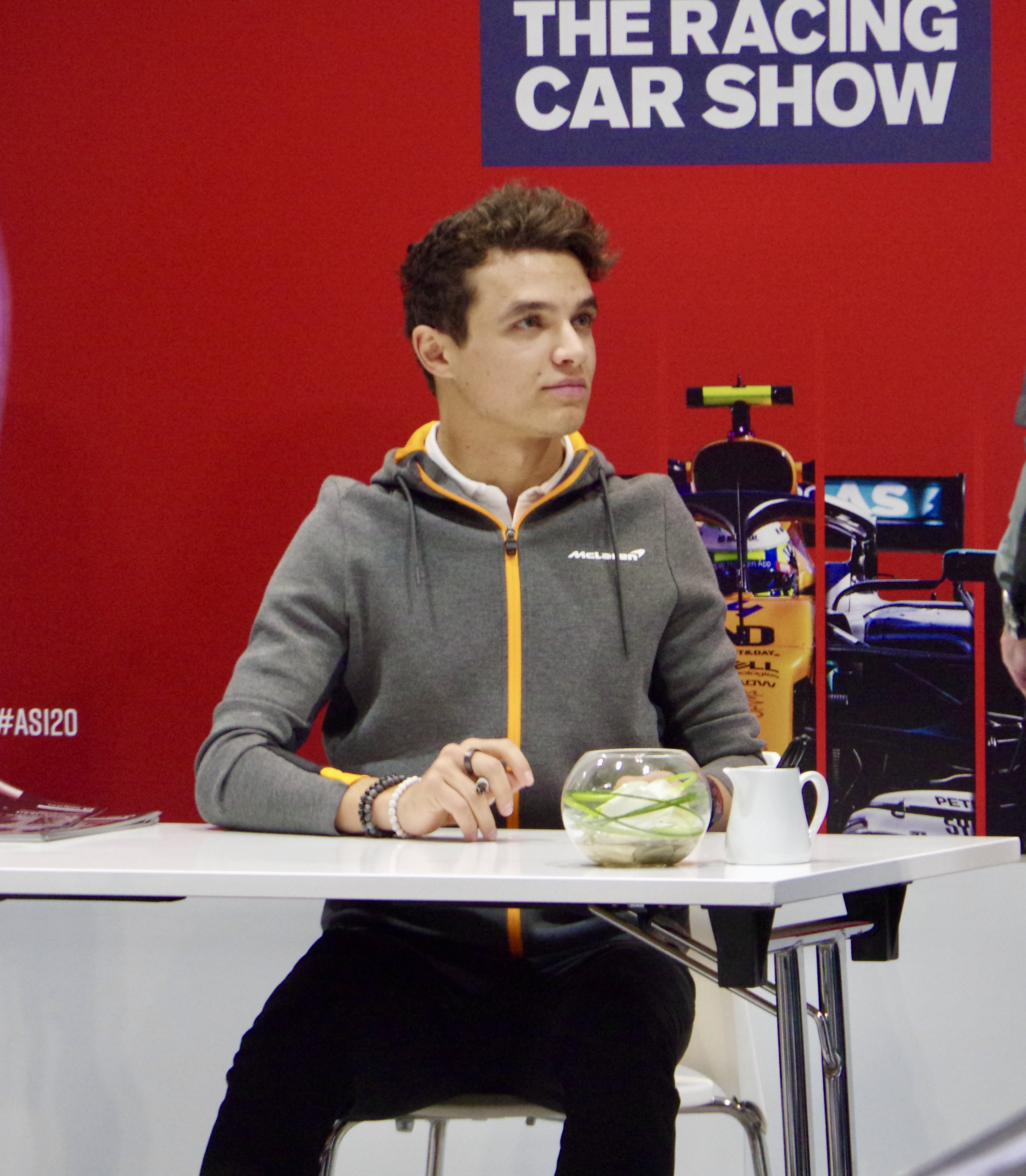 Autosport International Racing Car Show 2020